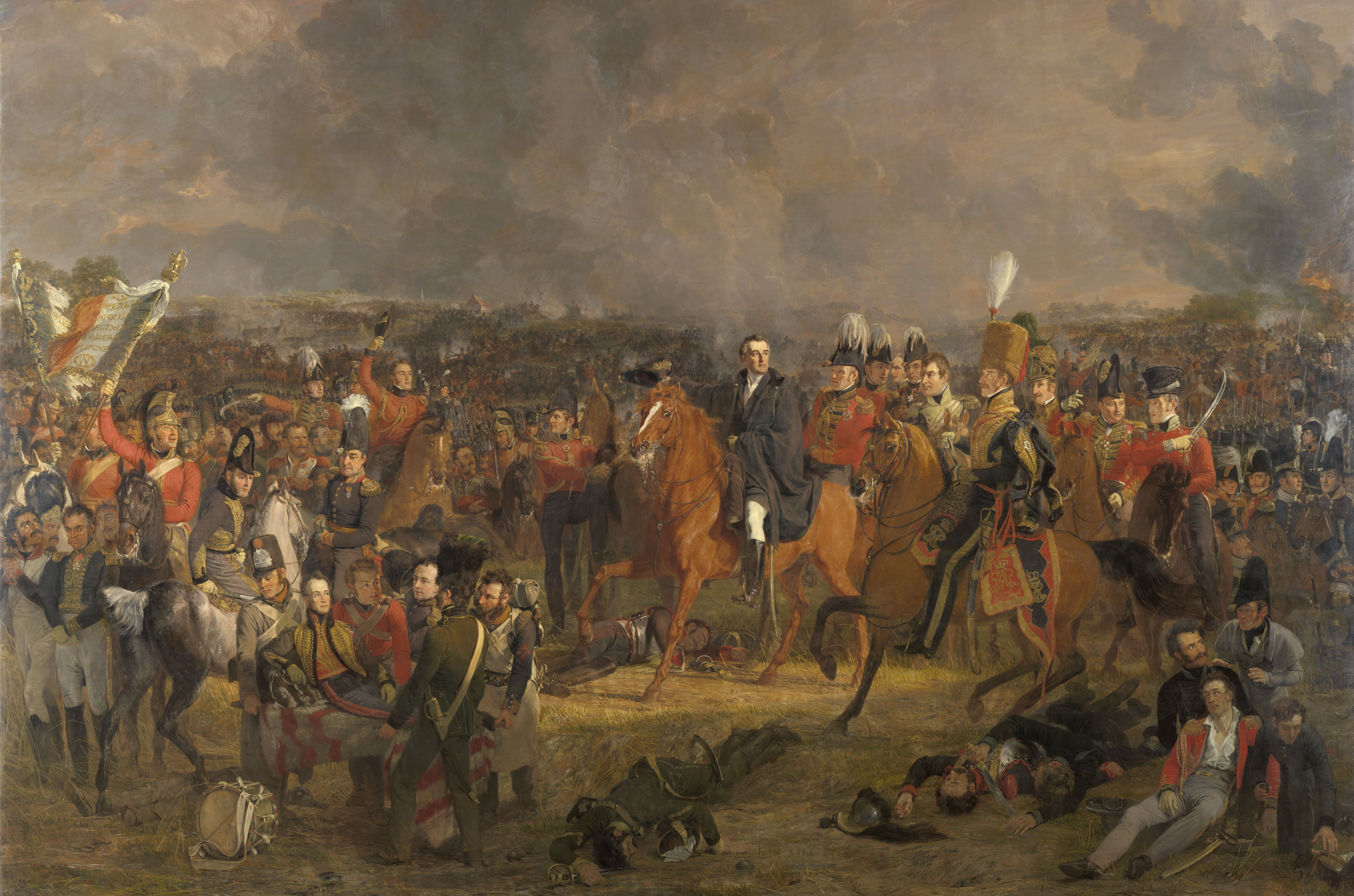 The Battle of Waterloo, 18 June 1815. View of the battle field on the moment that the British commander Wellington receives the message that help from Prussian troops is underway. Bottom left the wounded Prince of Orange is being carried away. The commanders and other officers are depicted in the center on horseback. Bottom right a number of wounded and dead soldiers. In the background the battle is raging. The people portrayed include Lord Uxbridge, Sir Rowland Hill, Staff Colonel Sir William Delancey, Major-General George Cooke, Colonel Harvey, Colonel Campbell, lieutenant-general Don Miguel Ricardo de Álava, lieutenant-colonel F.C. Ponsonby, Major William Thornhill, Jean Victor, baron De Constant de Rebeque, Colonel Sir John Elley, lieutenant-colonel Aberson, General-major A.K.J.G. d'Aubremé, Captain Aberson, Captain H. Roepel, Colonel H. Detmers, Major J.L.D. van der Smissen, Lieutenant-colonel A. van Thielen, Lieutenant-colonel Jhr. W.F. Boreel, Lieutenant-general D.H. Baron Chassé, Colonel Sir G.A. Wood, General Major J.B. Baon van Merlen, Lieutenant-general Ch. von Alten, Major General Sir Colin Halkett, Lieutenant-Colonel William George Harris, Captain C. Nepveu, Fitzroy James Henry Somerset, H.D. Graaf De Cruquenbourg, N.C. Ampt, General-Major Jhr. A.D. Trip, John William Fremantle, General-Major Graaf van Rheede, Major-General Lord Edward Somerset, Charles Gordon Lennox, Lord March, Colonel Dennis Pack, Major P.S.R. van Hooff, Major-general John Ormsby Vandeleur, Major Georg, Freiherr Baring, Colonel C. Von Ompteda, Colonel L.J.H.F. De Caylar and Général de Division Cambronne, Maréchal de Camp.